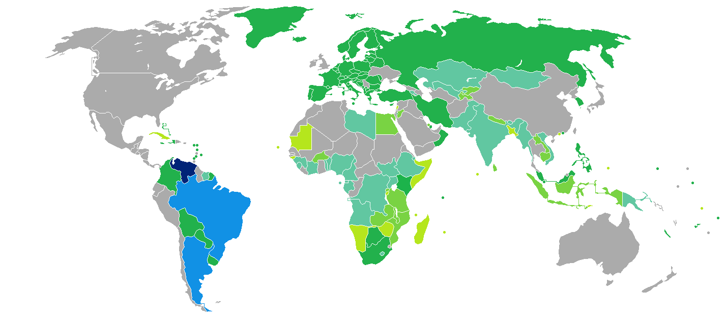 Visa requirements for Venezuelan citizens Venezuela ID card travel Visa free access Visa on arrival eVisa Visa available both on arrival or online Visa required